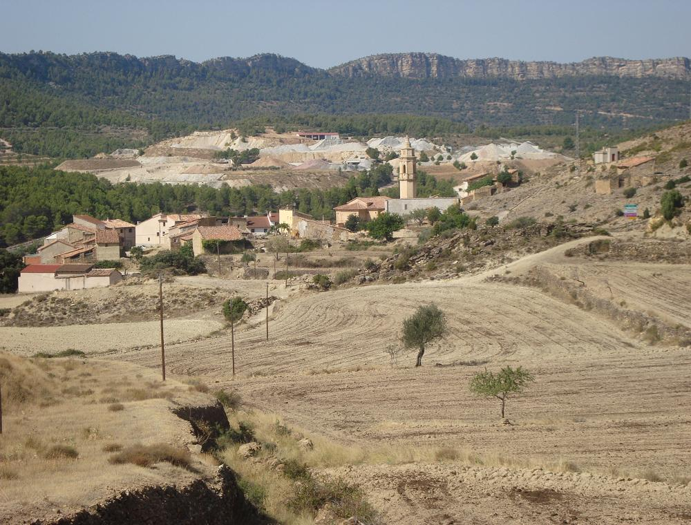 Jaganta view from the access road